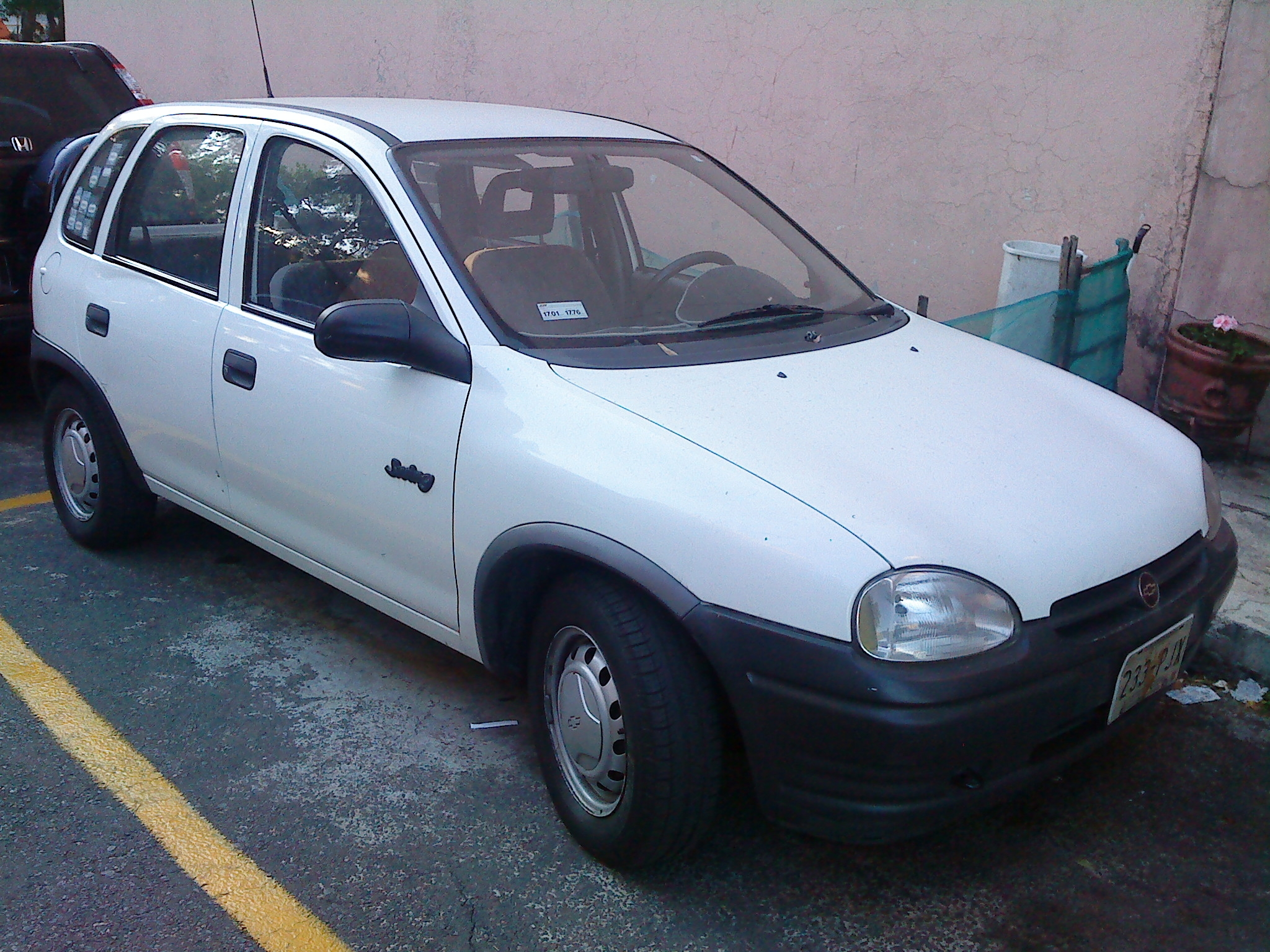 A 1996 5 door Chevy Swing in Mexico